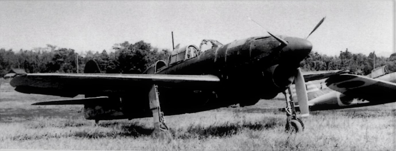 Judy of a fuyou scordon waiting for a disposal facility